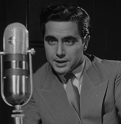 screenshot from the film Bellissima (1951)